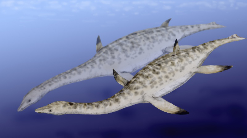 Nichollssaura borealis is a plesiosaur from the Early Cretaceous of Alberta, pencil drawing, digital coloring.